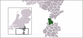 Location of Sittard-Geleen